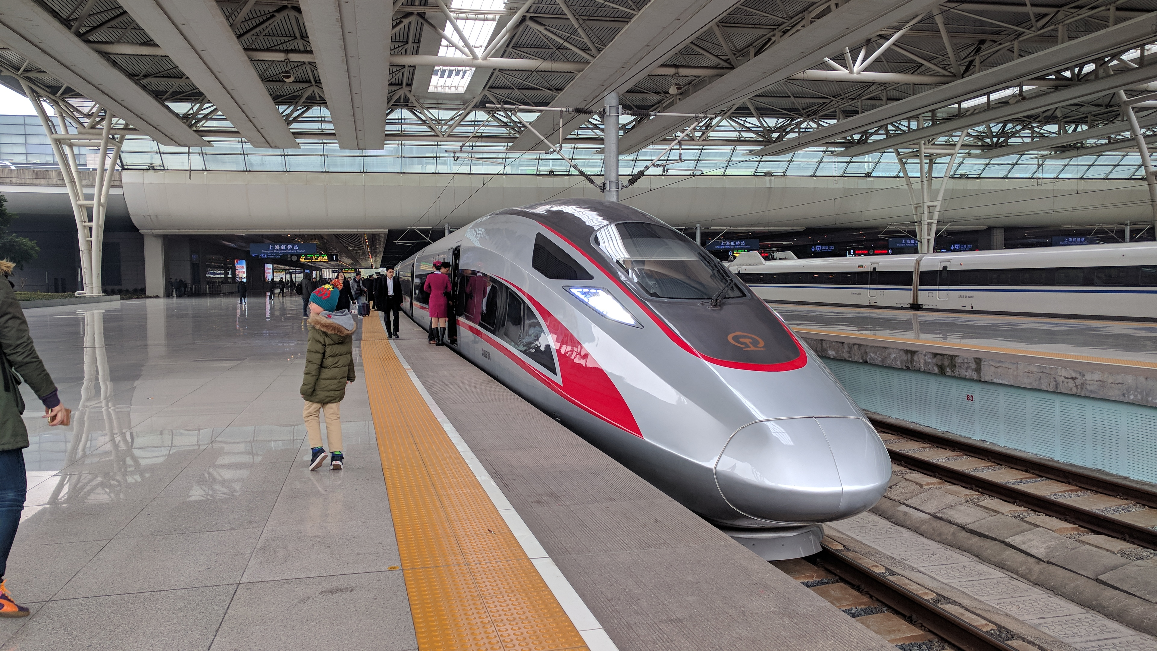 Before departure from Shanghai to Beijing, China